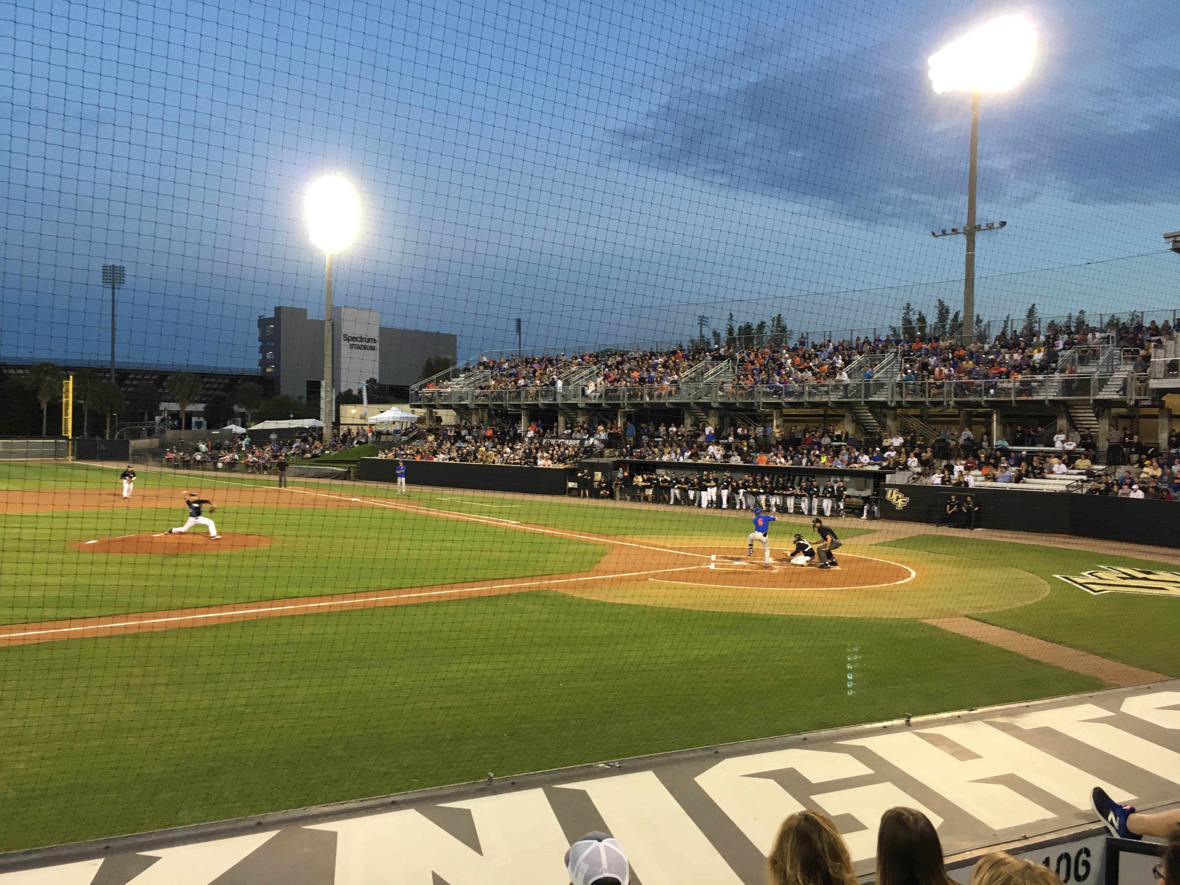 UCF hosts Florida, March 6, 2018 Jonathan India at bat